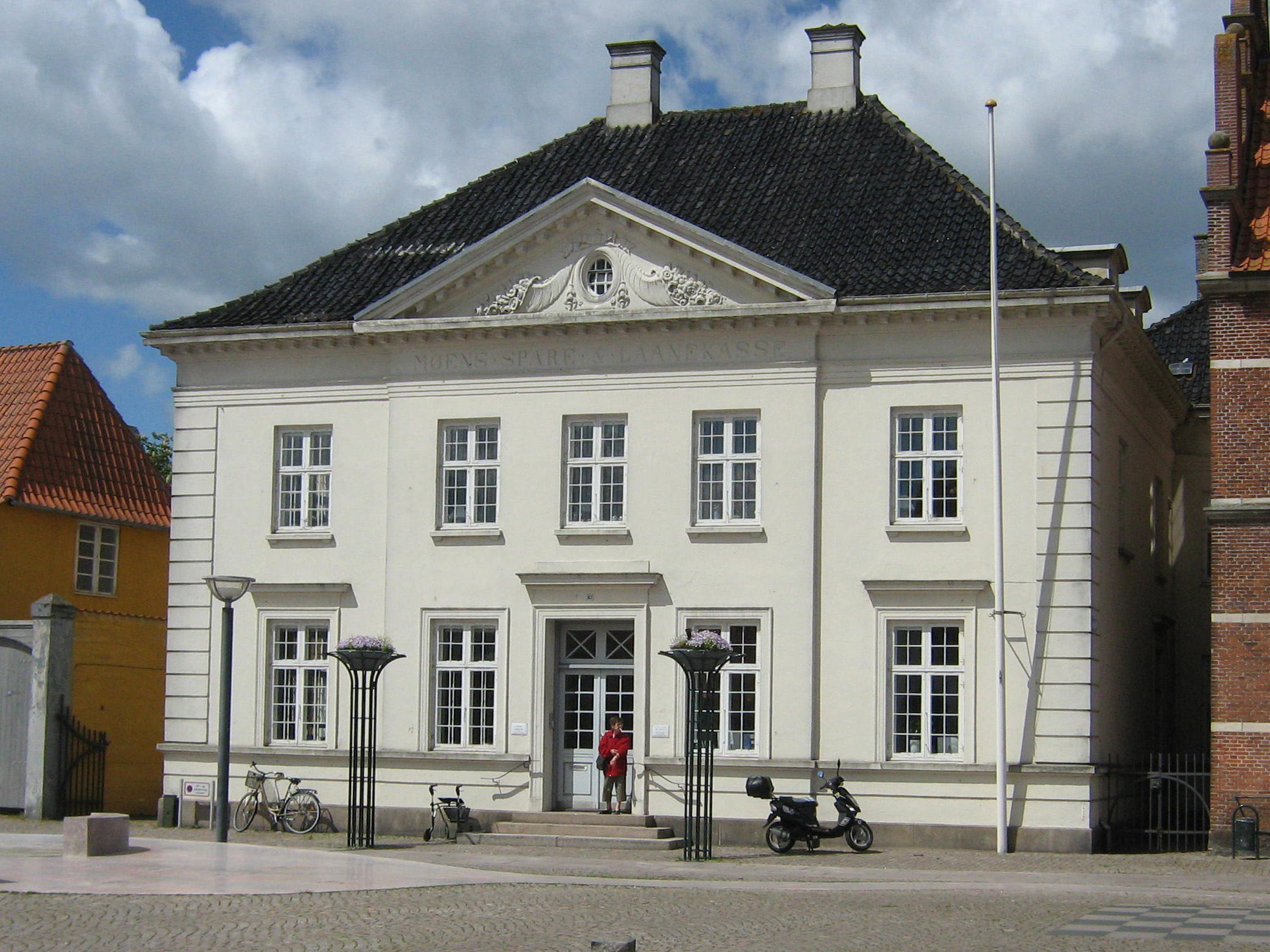 The old Sparekasse building at Storegade 37, Stege, Denmark